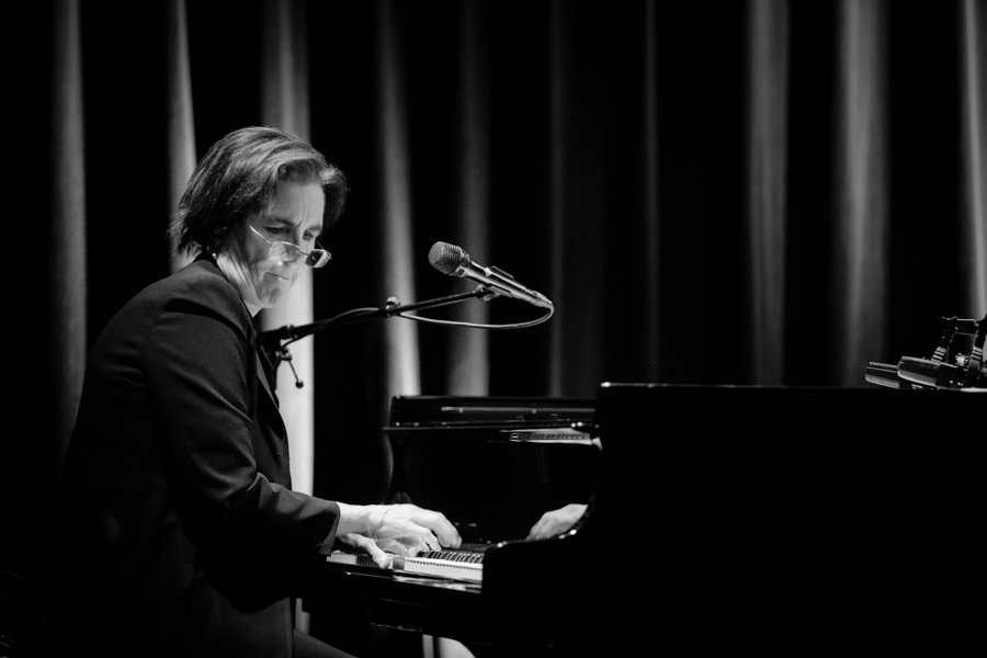 Patricia Barber at the stage at Victoria Teater. The concert took place on 06. December 2017 in Oslo. Lineup: Patricia Barber (piano / vocal), Patrick Mulcahy (double bass) and Jon Deitemyer (drums).